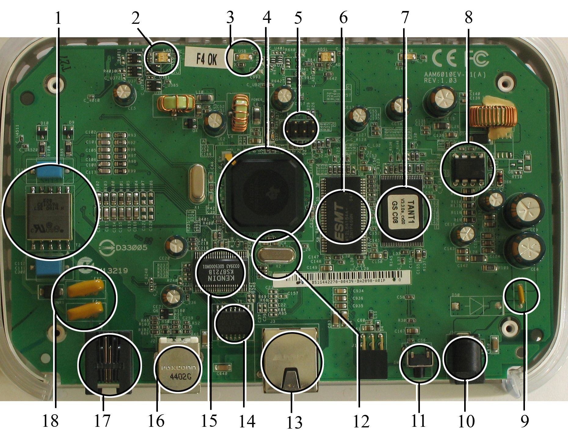 This image shows the parts found inside a Netgear DG632 ADSL Modem/router. It acts as a router between an ethernet port and an ADSL broadband internet connection, and provides typical home router features, such as DHCP. The labeled parts are as follows: Telephone decoupling electronics (for ADSL) Multicolour LED (displaying network status) Single colour LED (displaying USB status) Main processor, a TNETD7300GDU, a member of Texas Instruments' AR7 product line JTAG (Joint Test Action Group) test and programming port RAM, a single ESMT M12L64164A 8 MB chip Flash memory, obscured by sticker Power supply regulator Main power supply fuse Power connector Reset button Quartz crystal Ethernet port Ethernet transformer, Delta LF8505 KS8721B Ethernet PHY transceiver USB port Telephone (RJ11) port Telephone connector fuses